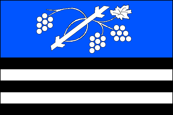 Municipal flag of Dolní Bojanovice village, Hodonín District, Czech Republic.